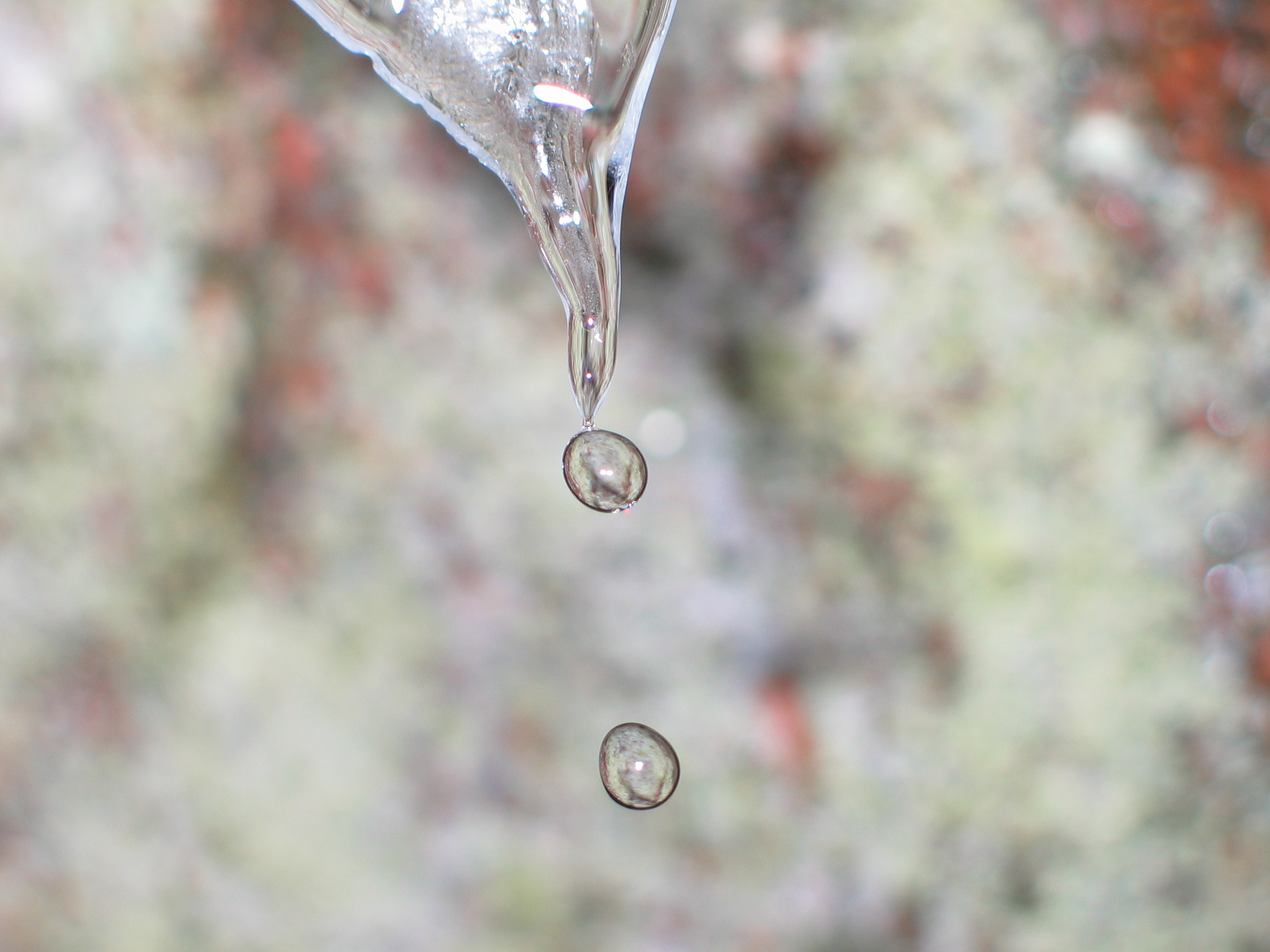 Two drops of water falling from a piece of ice. Uppland, Sweden.